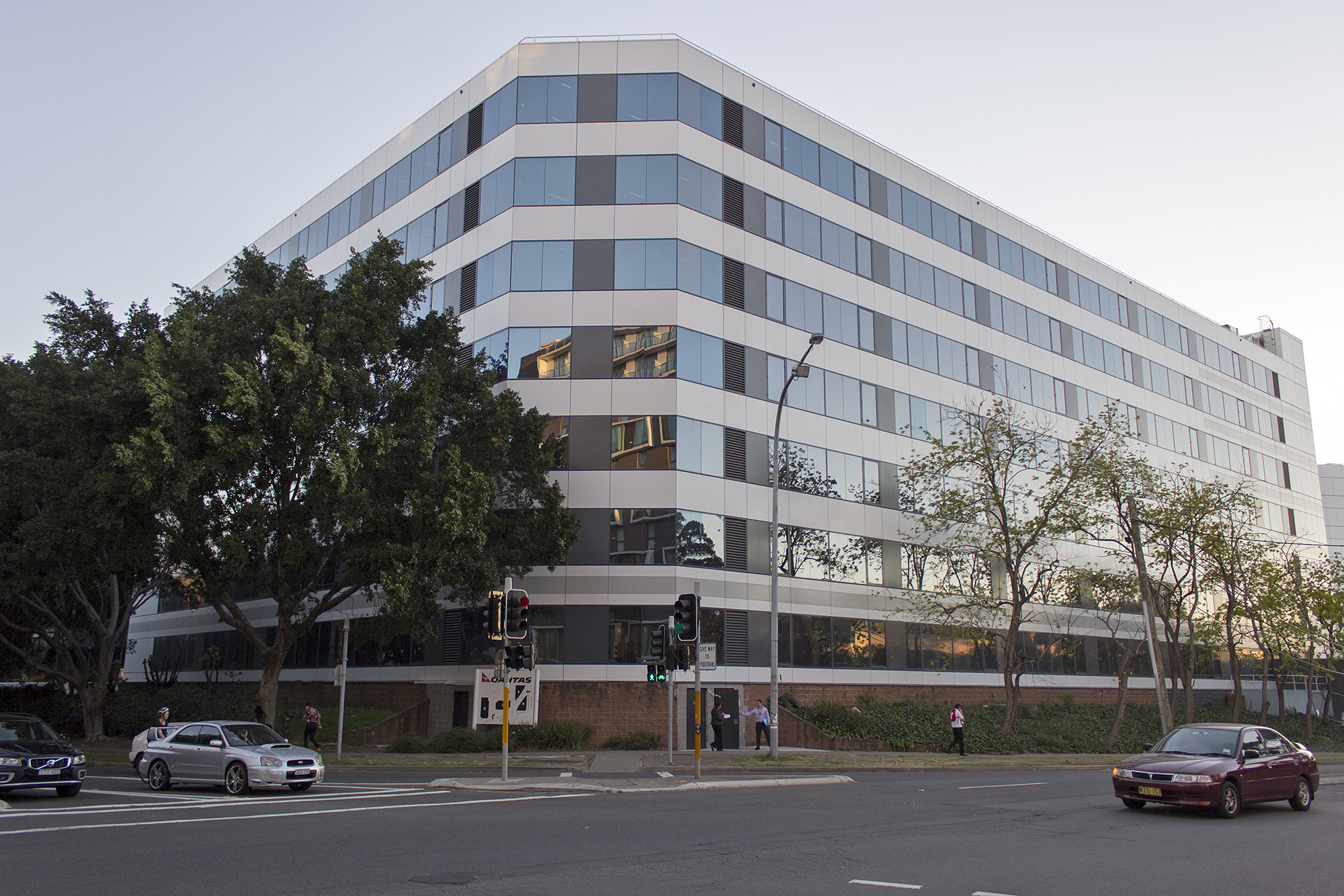 Qantas Building A on the corner of Bourke Road and Coward Street in Mascot.